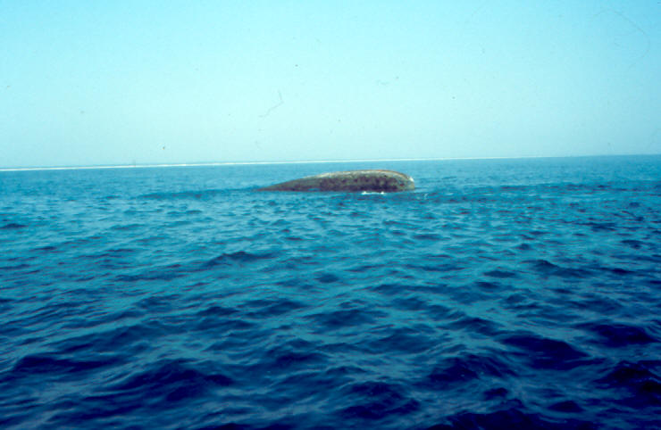 Remnants of the wreck of the USS Massachusetts battleship just outside of the pass at Pensacola, FL.